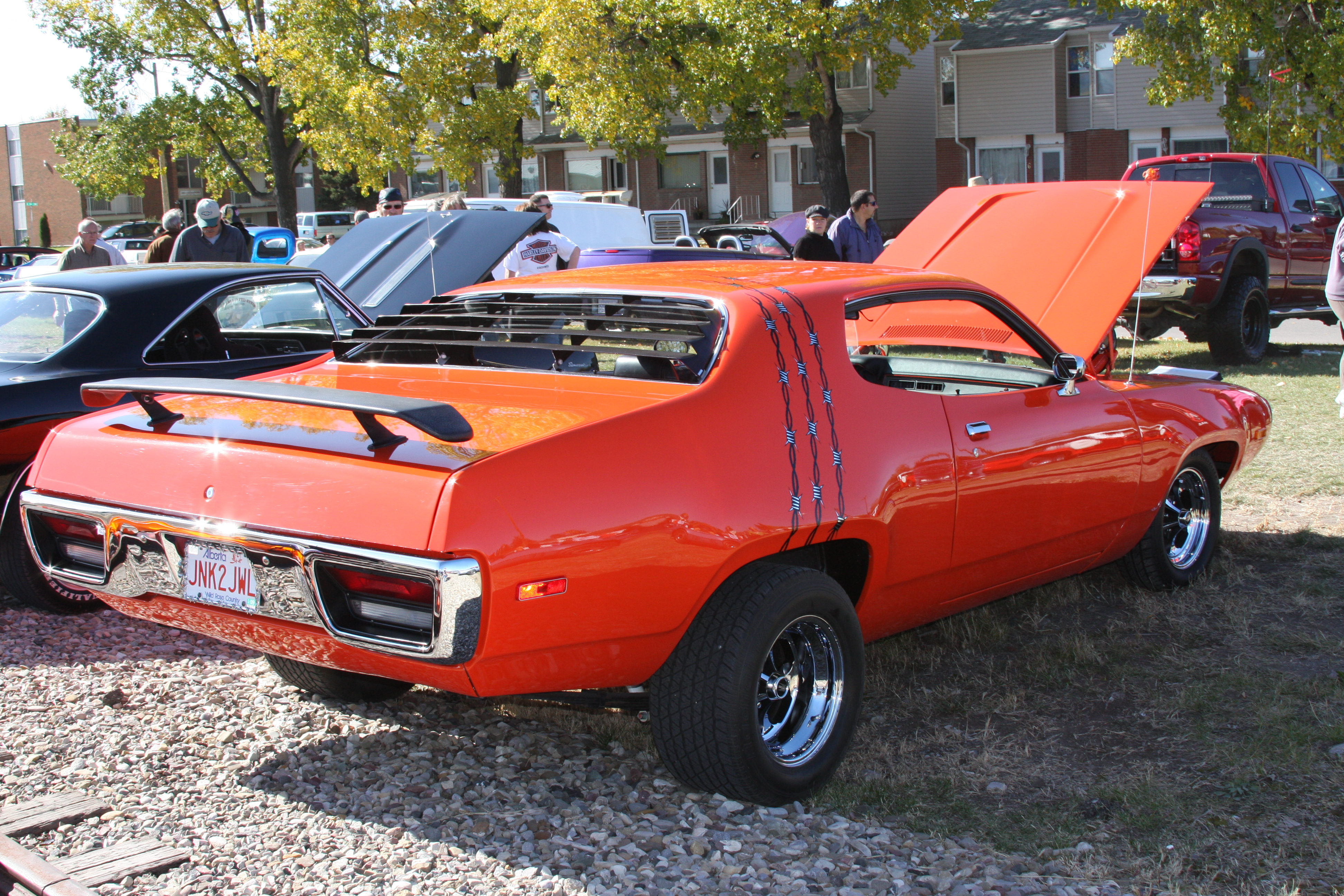 1971 Plymouth Roadrunner